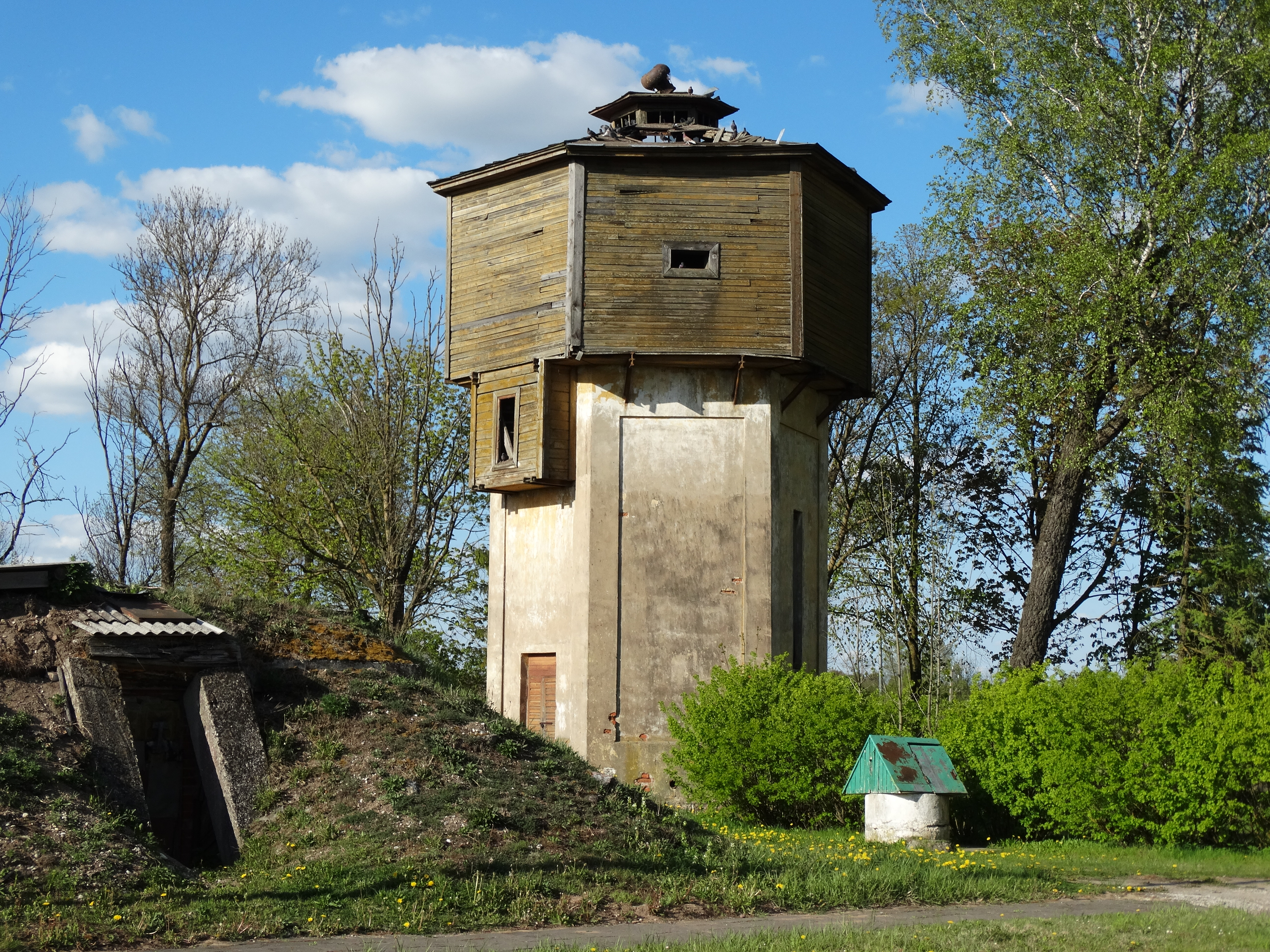 Baisogala, by railroad, Radviliškis District, Lithuania